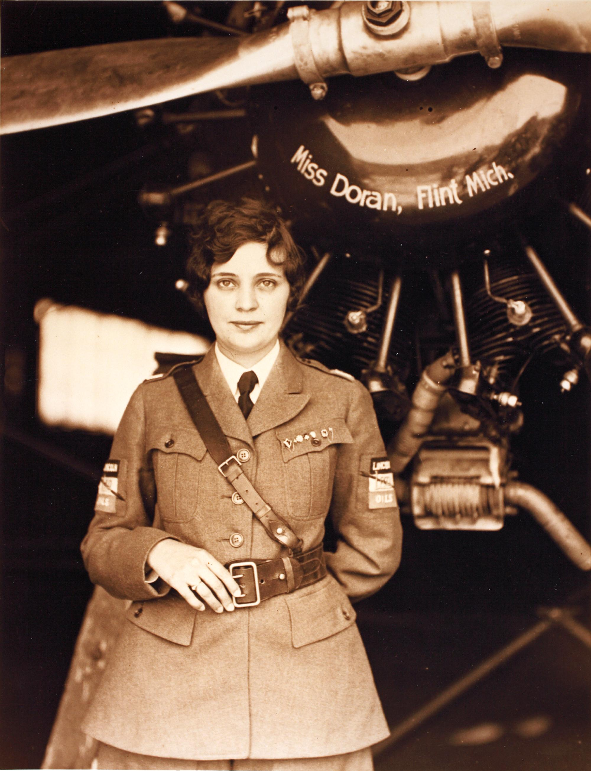 Catalog #: 10_0014523 Title: Dole Air Race Additional Information: Buhl Air Sedan ""Miss Doran"" NX2915 Tags: Dole Air Race, Buhl Air Sedan ""Miss Doran"" NX2915 Repository: San Diego Air and Space Museum Archive